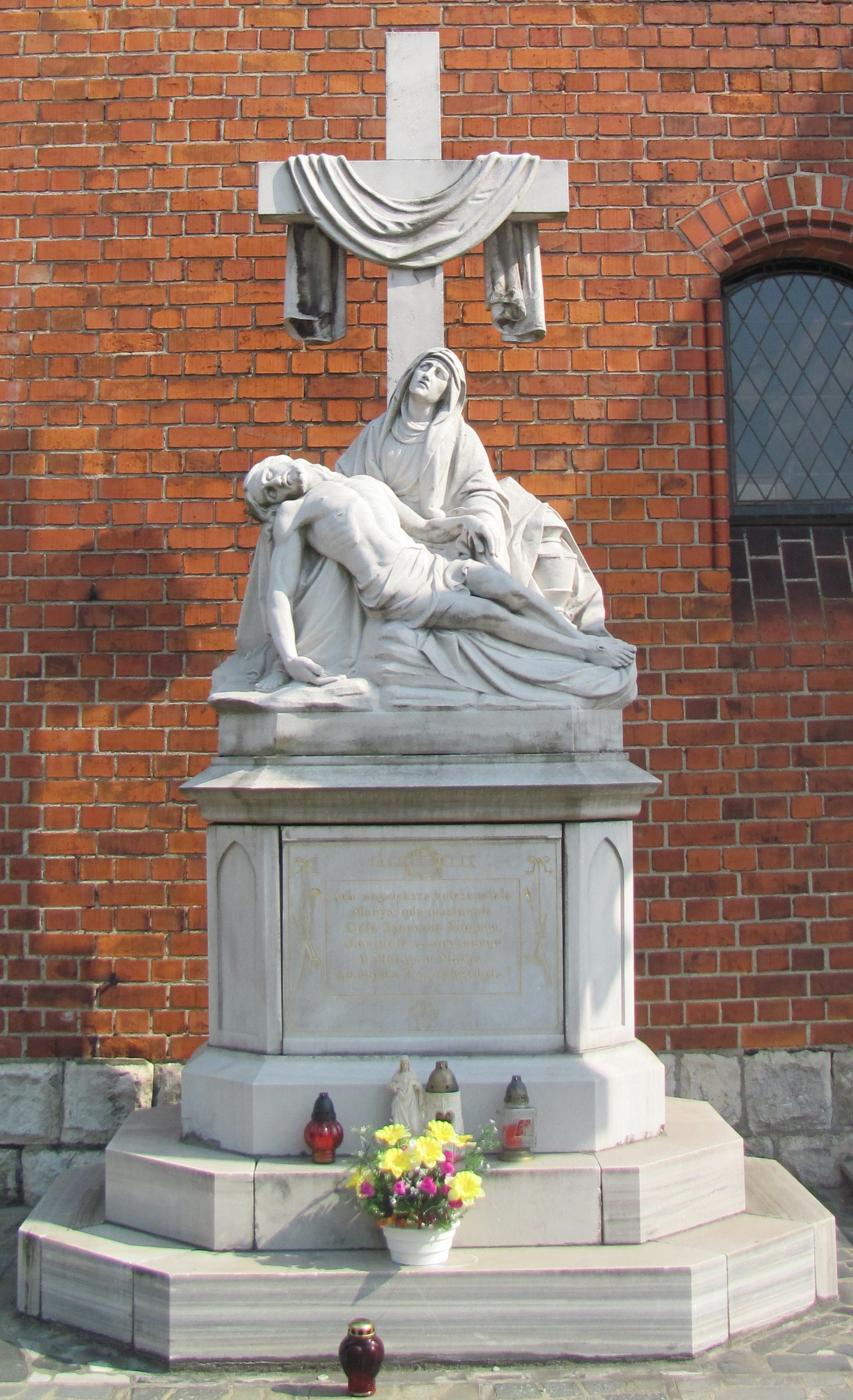 Statue of Pietà by the church in Brynica